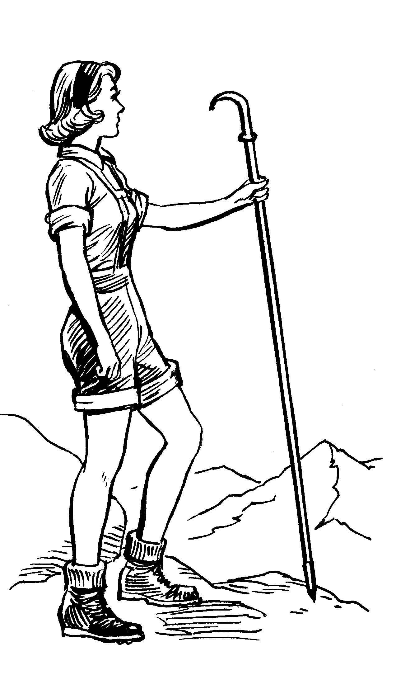 Line art drawing of a woman holding an alpenstock.